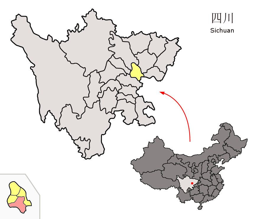 Location of Suining City Districts (pink) and Suining Prefecture (yellow) within Sichuan province of China Map drawn in october 2007 using various sources, mainly : Sichuan province administrative regions GIS data: 1:1M, County level, 1990 Sichuan Counties map from